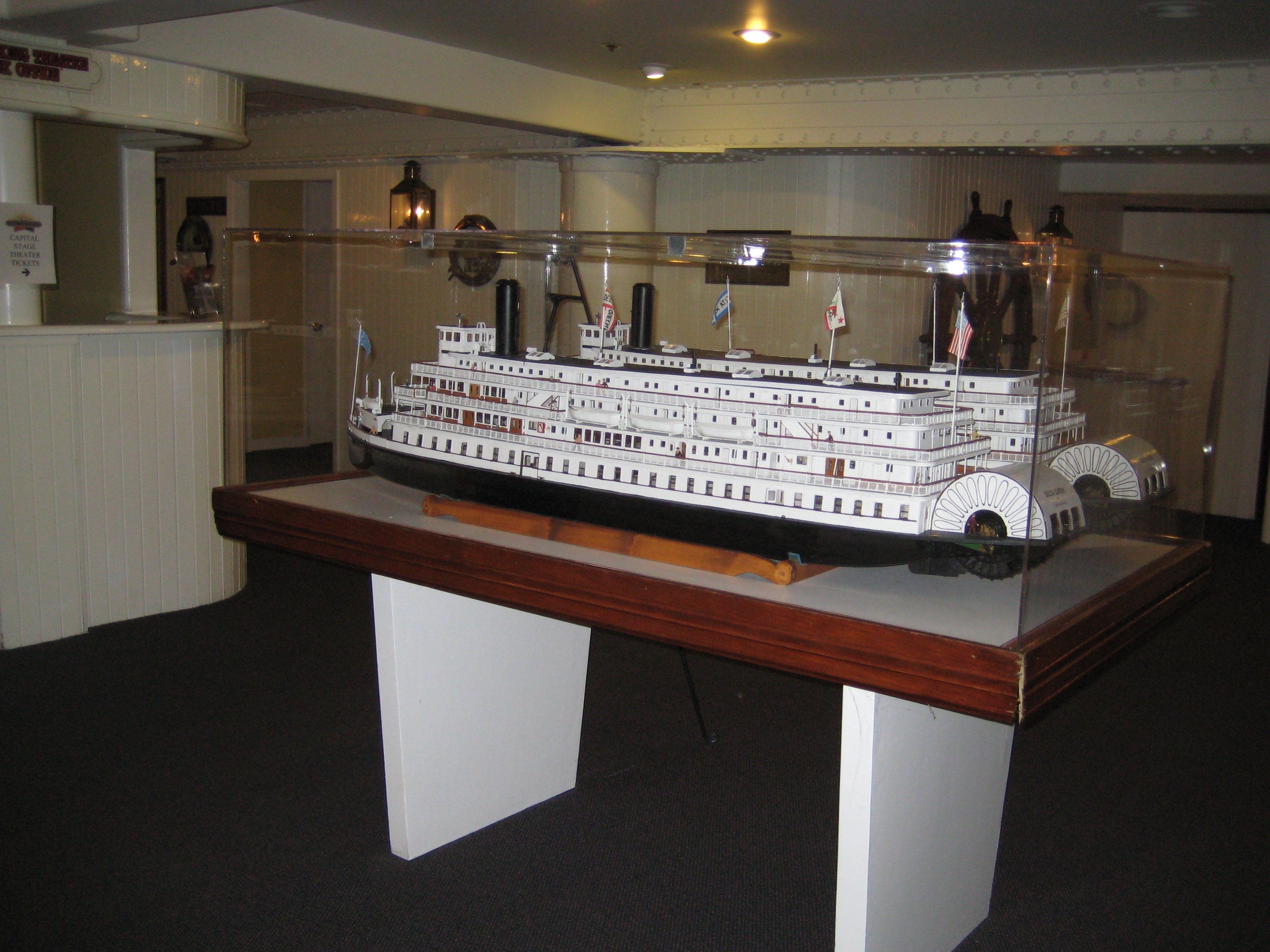 Model Display of Delta King and Delta Queen in the Freight/Main Deck of the Delta King, Sacramento